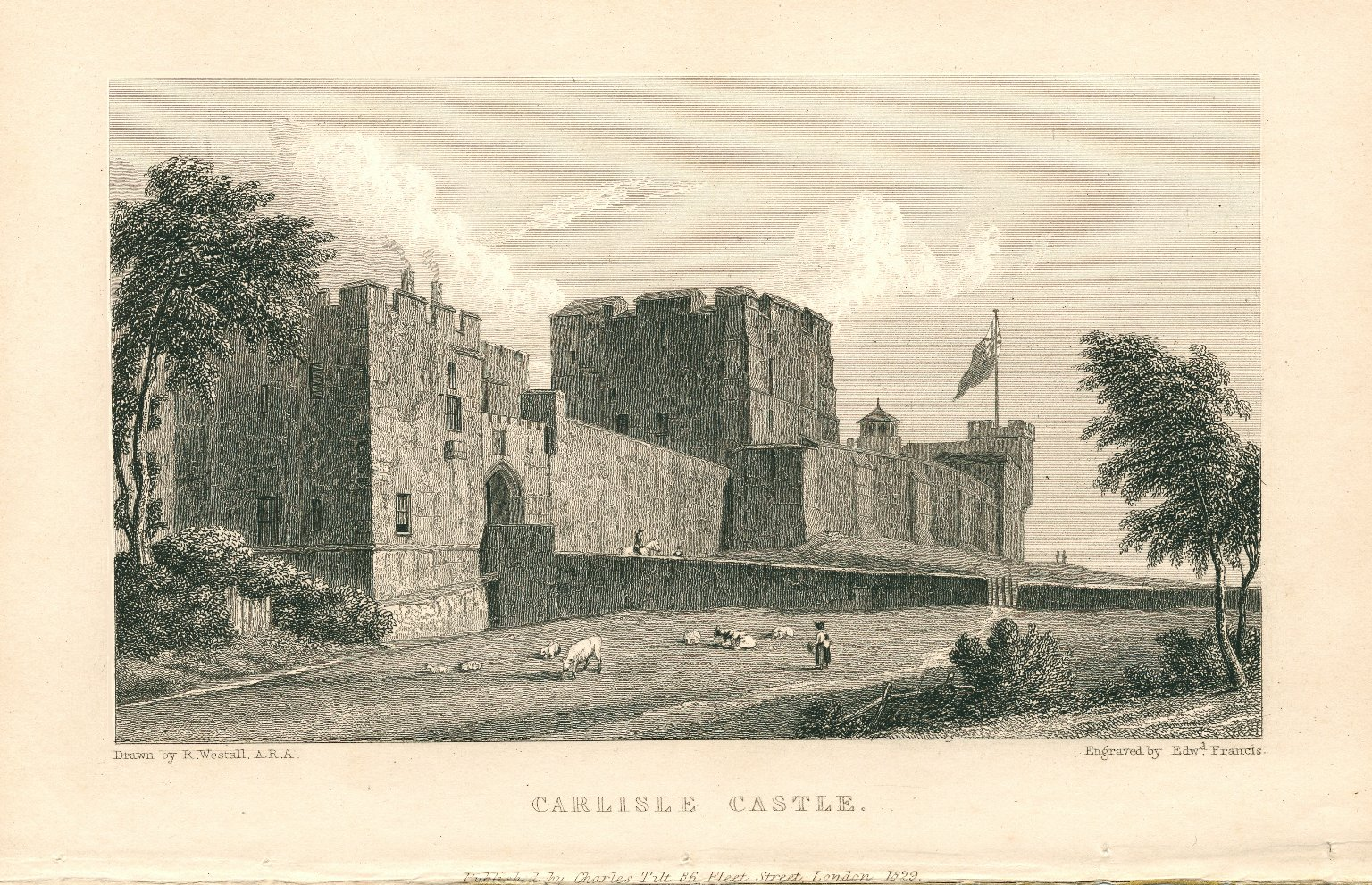 Depicts Carlisle Castle, Cumbria, with grazing cattle in the foreground. Edward Waverley visits the captive Fergus MacIvor in Carlisle Castle in Waverley ch. 69. MacIvor is subsequently executed outside the castle gate along with Evan Dhu. Besides featuring in a number of Scott's works, Carlisle was also the scene of Scott's wedding to Margaret Charlotte Carpenter on 24 December 1797. This image is available from the University of Edinburgh Image Collections This item is part of University of Edinburgh Image Collections, wal~1~1~61944~100592View the image in Wikimedia's IIIF-compliant Mirador viewer which enables high resolution zooming.View the image in its original context in the University of Edinburgh Image Collections Catalogue This file was uploaded as part of a GLAMWiki partnership with the University of Edinburgh. This tag does not indicate the copyright status of the attached work. A normal copyright tag is still required. See Commons:Licensing.